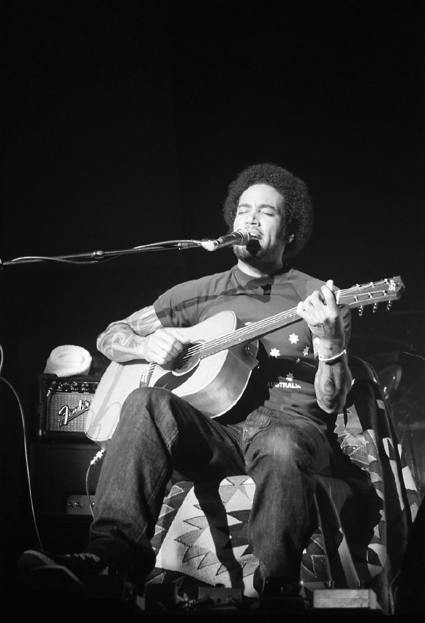 Guitarist and singer Ben Harper